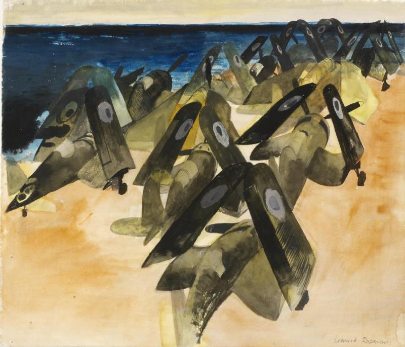 Several Corsair fighters and one Avenger aircraft, all with folded wings, on the deck of an aircraft carrier with the horizon visable in the background.